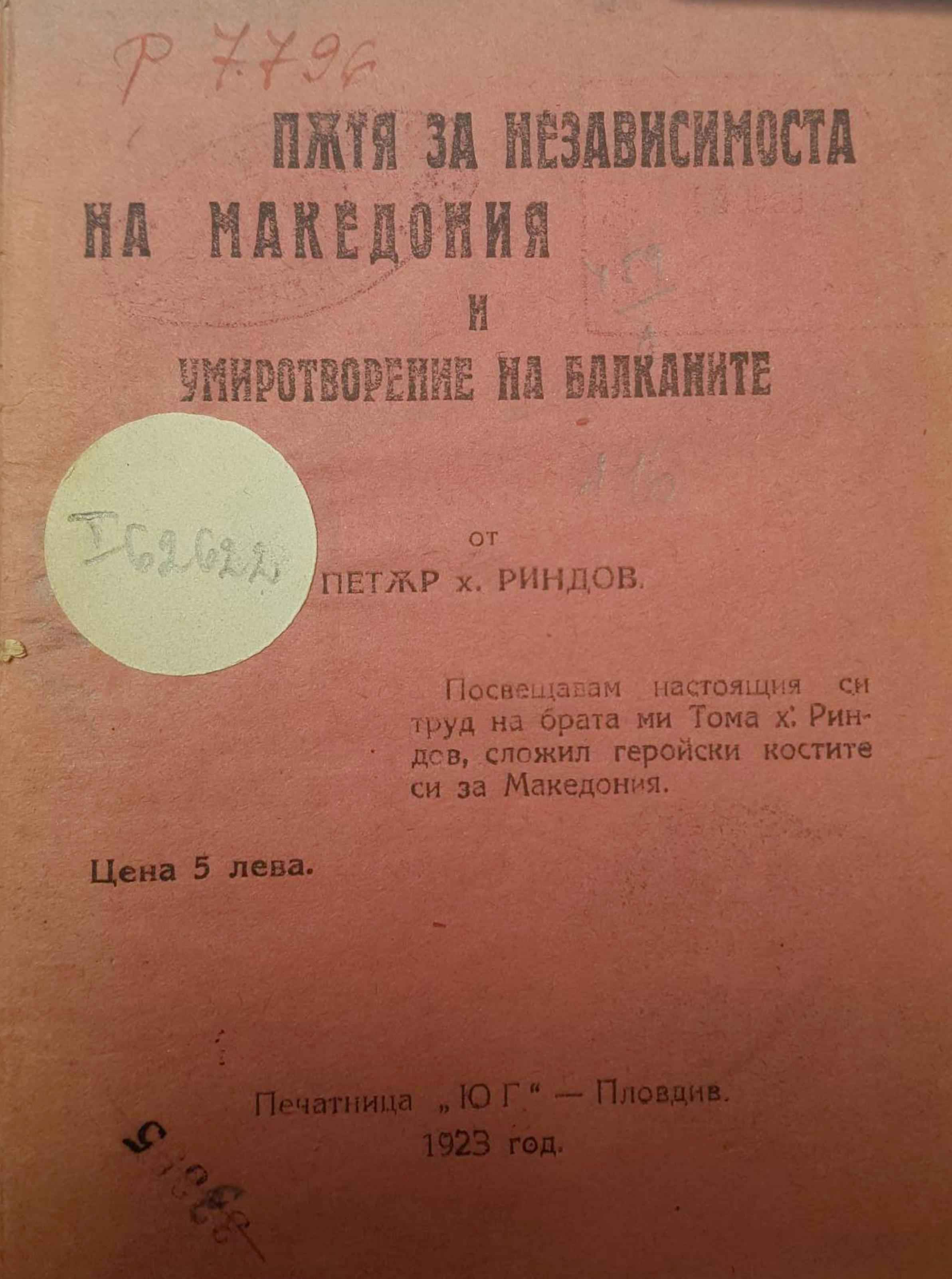 The Road to Independence for Macedonia by Petar Hadzhirindov